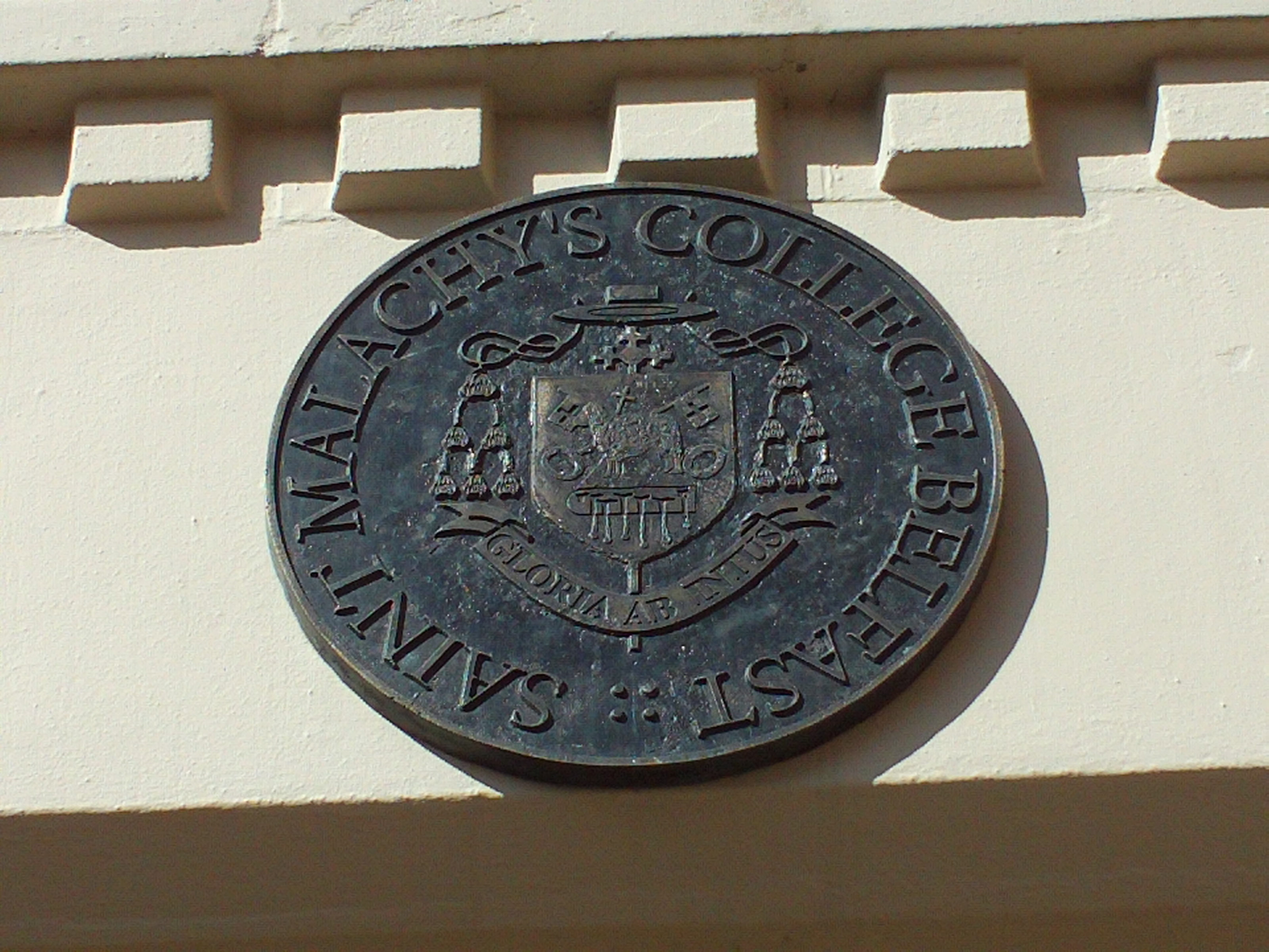 St. Malachy's College, Belfast. Plaque.